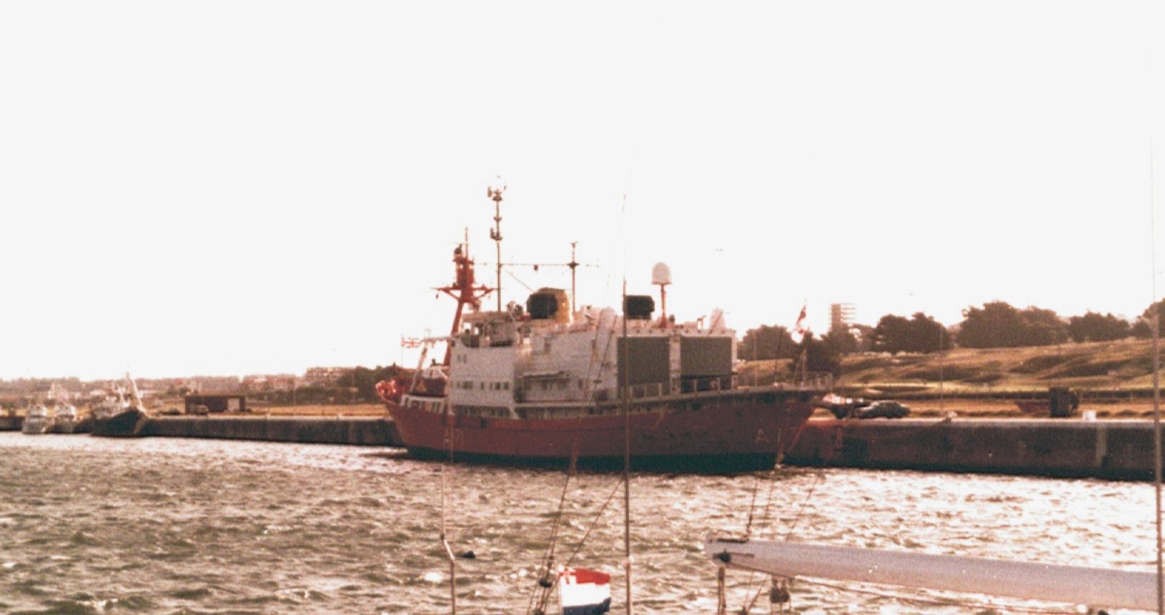 HMS Endurance at Mar del Plata naval base, just weeks before the begining of the Falklands War.